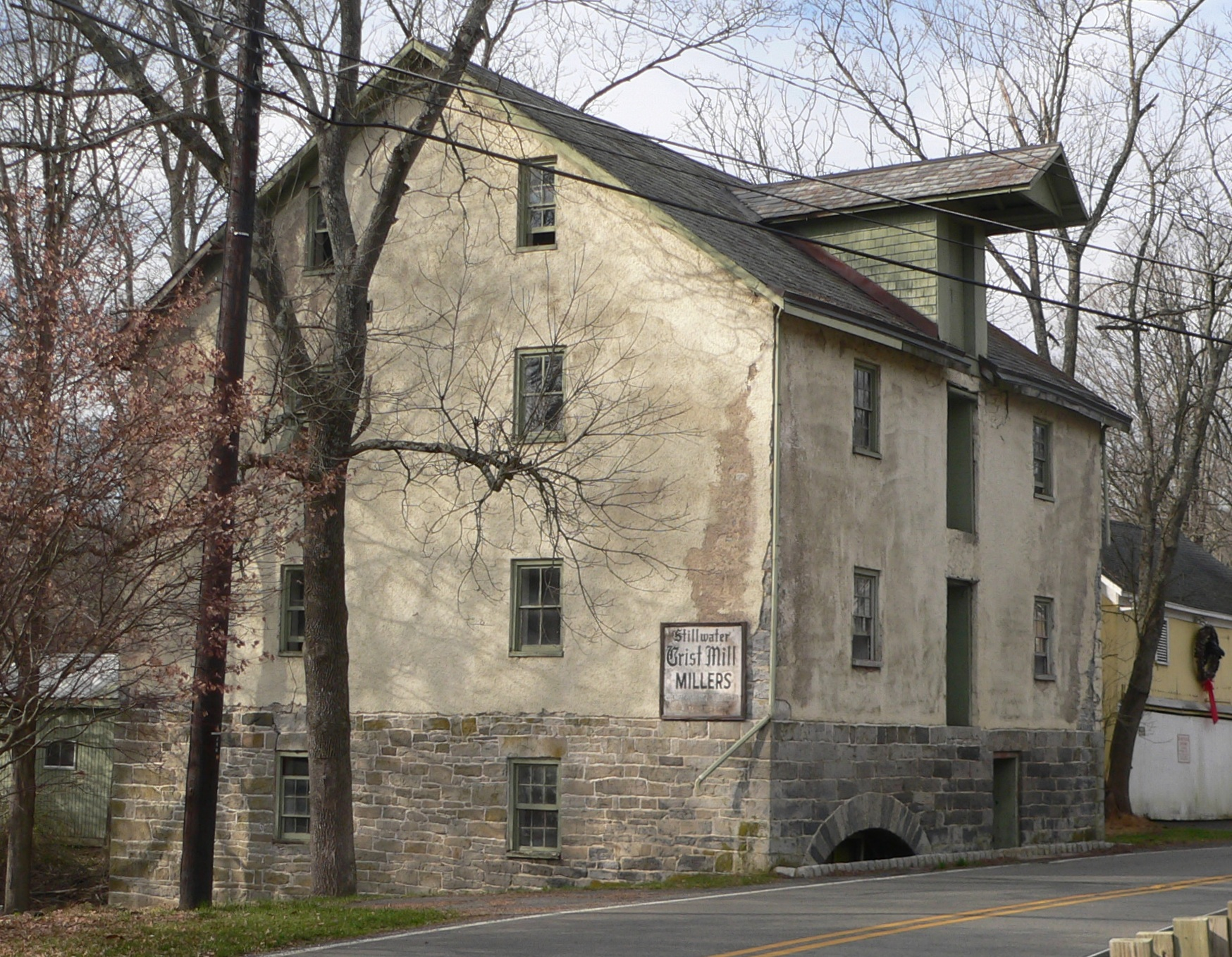 Shafer grist mill, located at 928 Main Street in Stillwater, New Jersey; seen from the southeast.